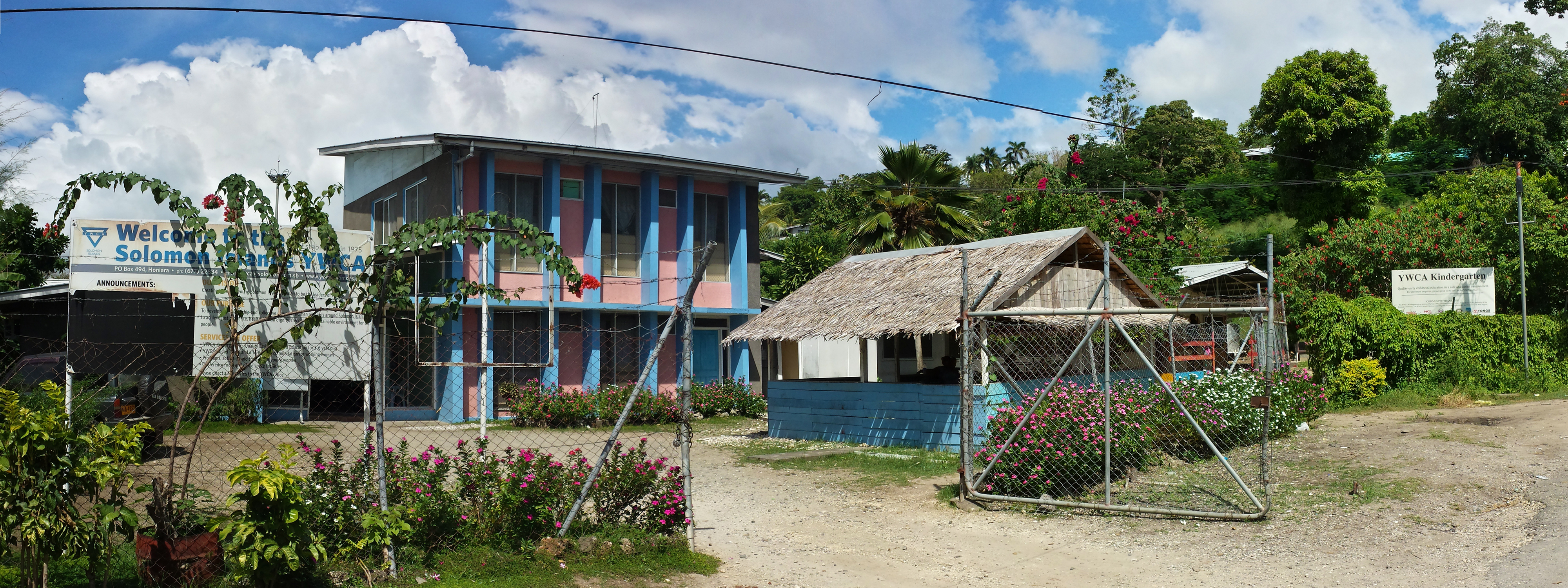 Photo of the Young Womens Christian Association building and kindergarten in Kukute Street Honiara